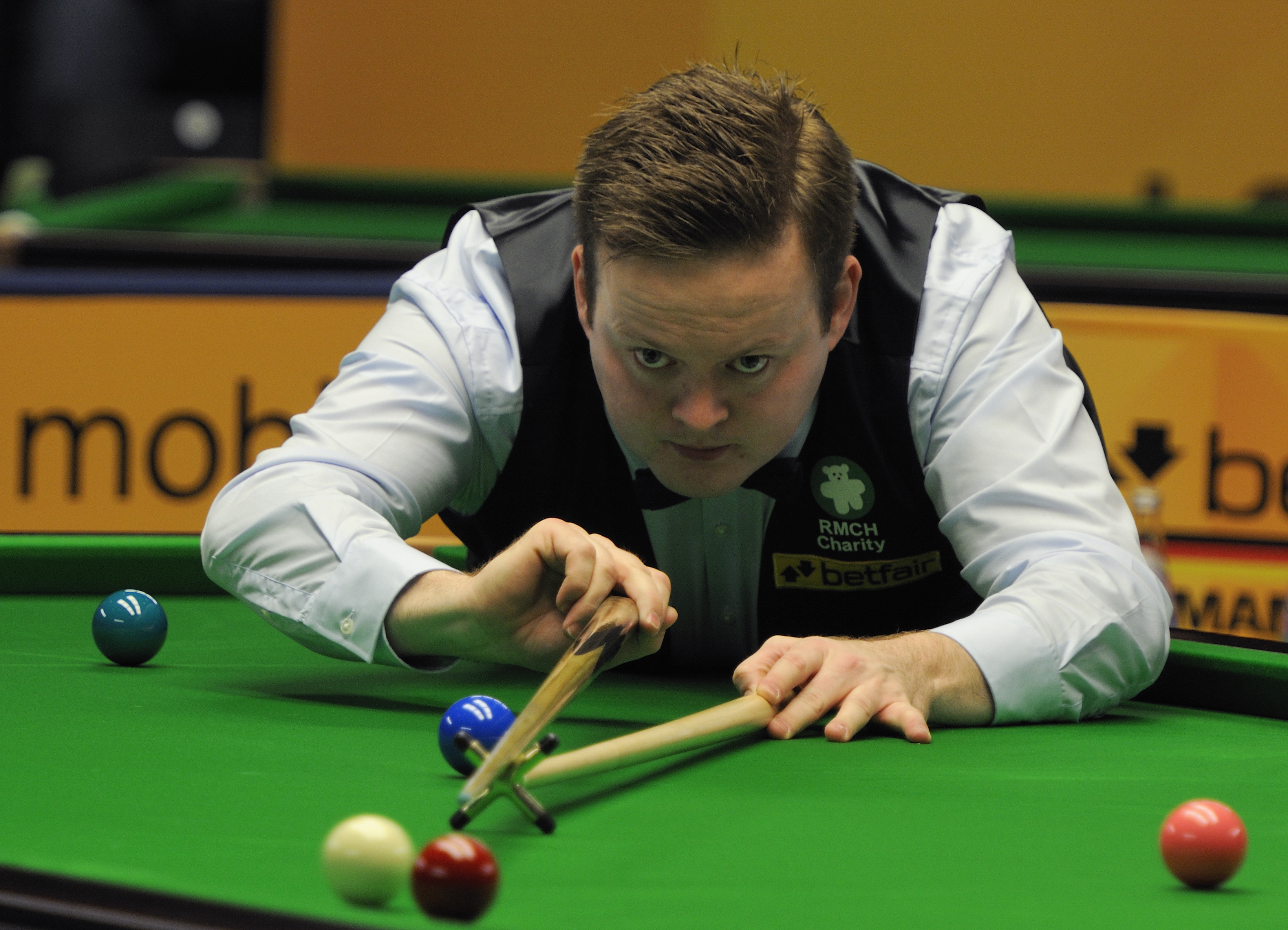 Picture taken in Berlin during the Snooker German Masters in 2013. Shaun Murphy.